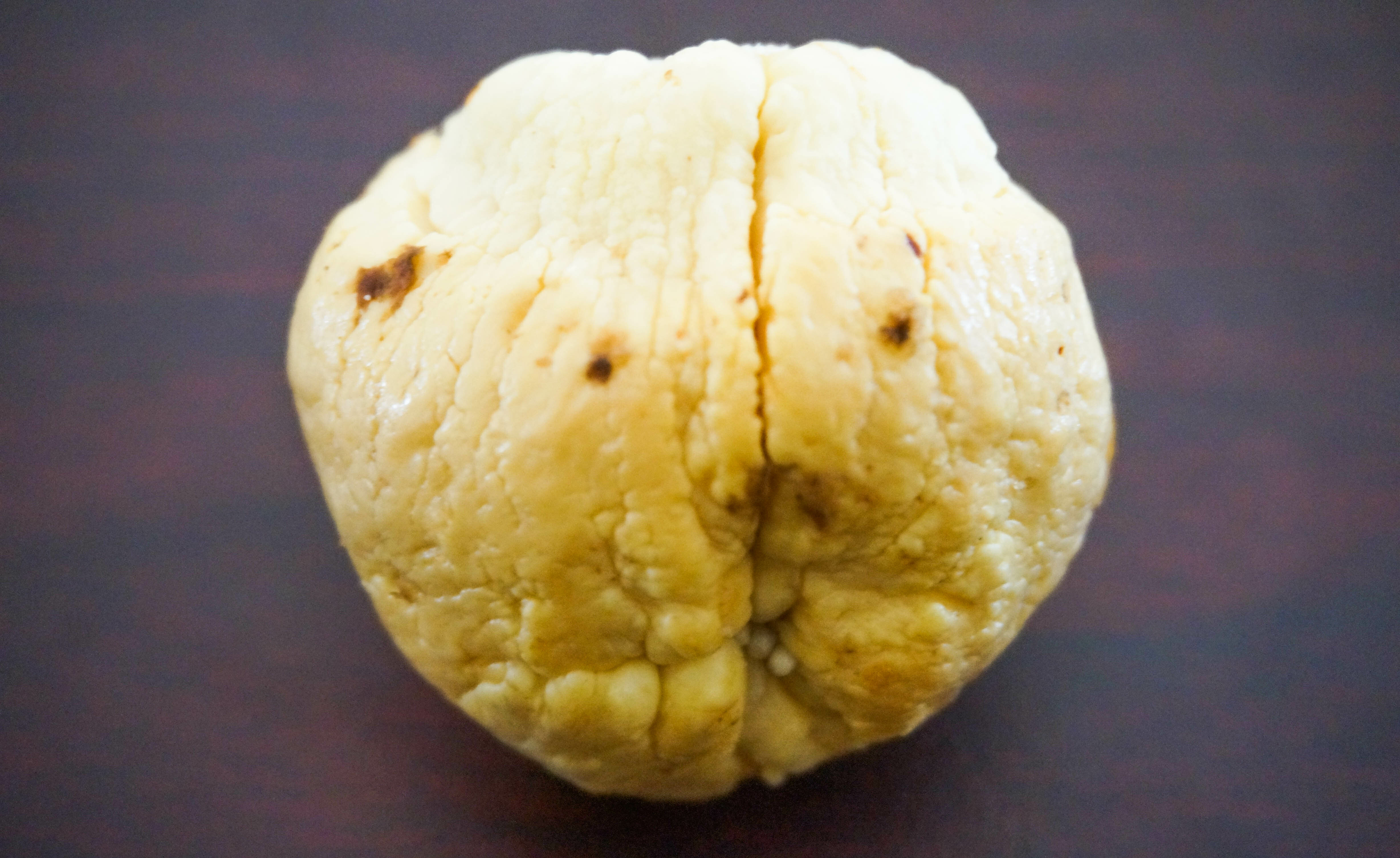 Avocado seed at Malik's Farm